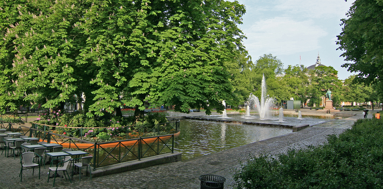 Park and fountain section of Oslo's central square, Eidsvolls plass.